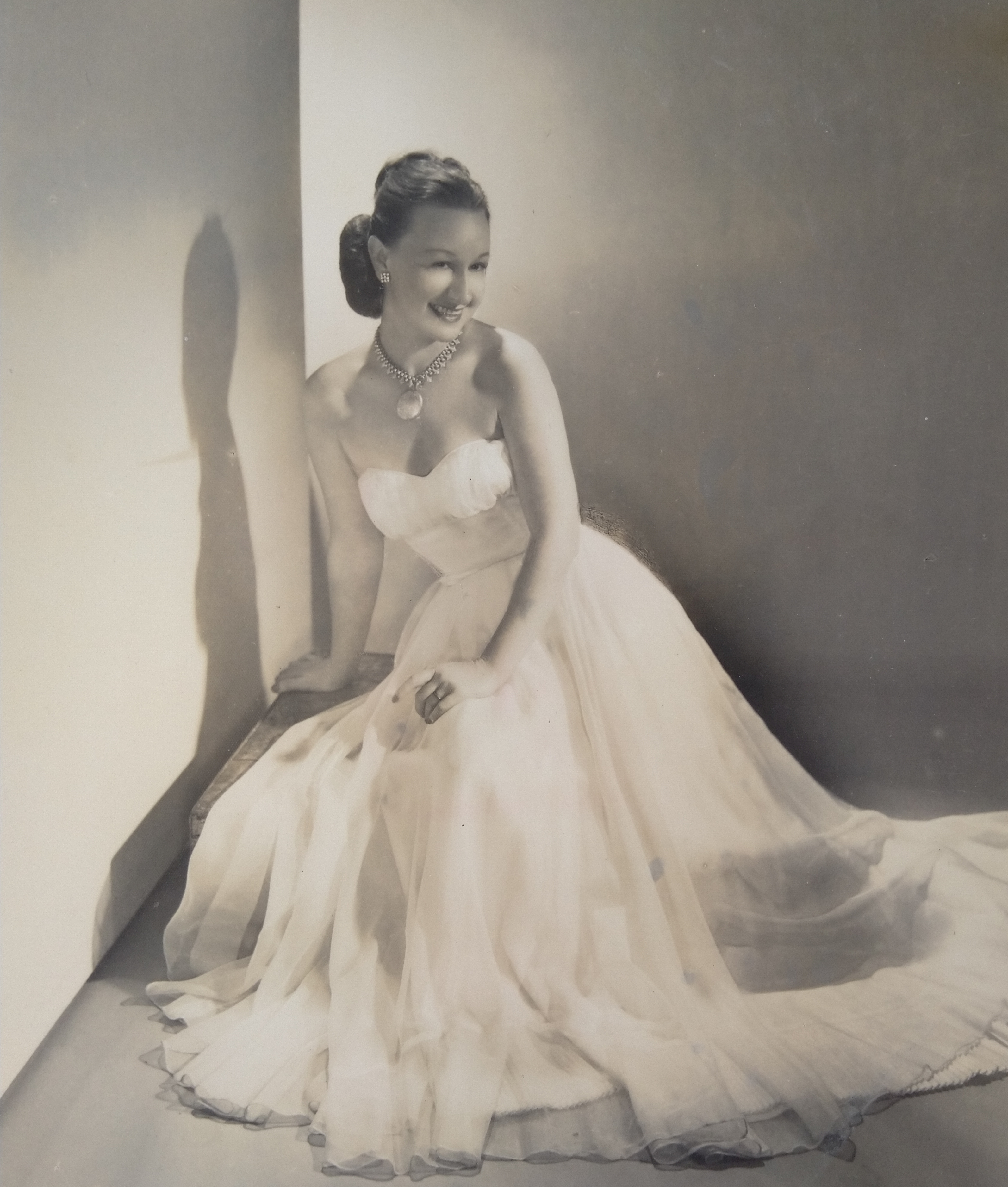 Enith Clarke, circa 1940s